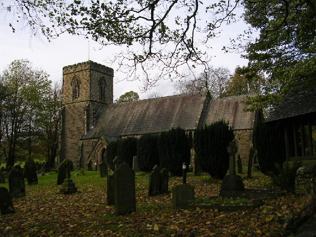 Embsay & Eastby Parish Church. St. Mary's church is in the Bradford Diocese and is situated half way between the two villages